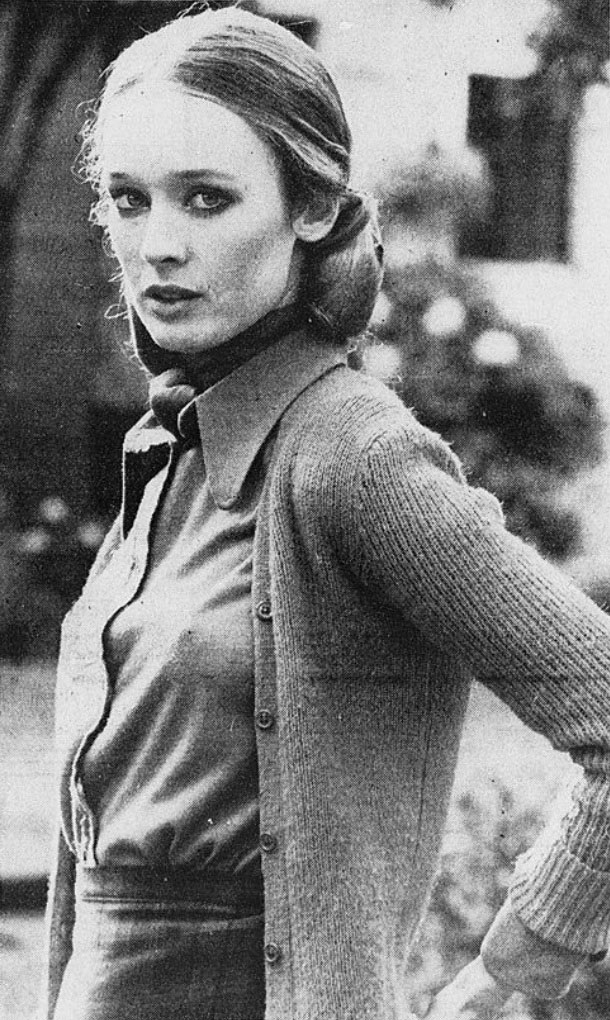 Rome (Italy), circa 1972. American actress Camille Keaton.